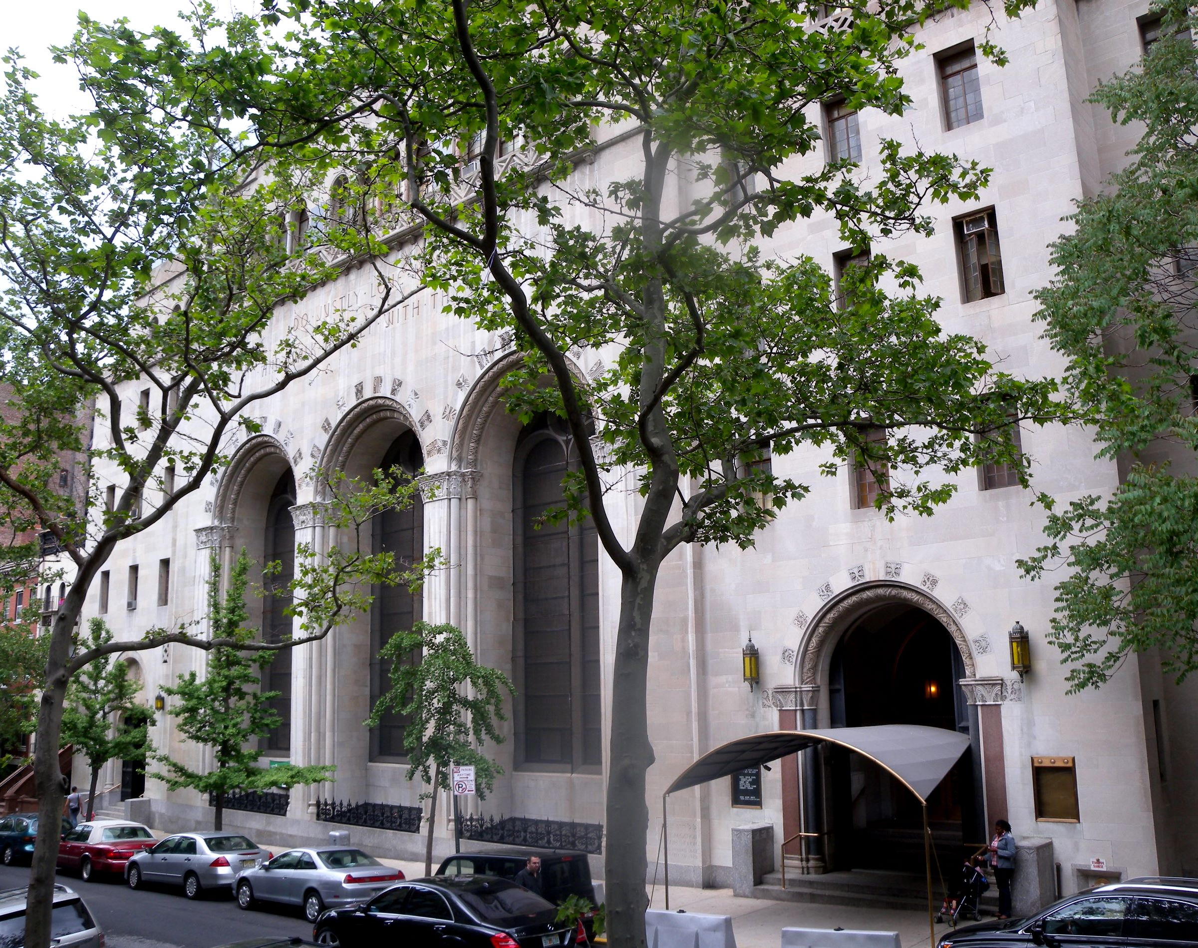 Looking north across 83d at Rodeph Sholom on a mostly cloudy day.